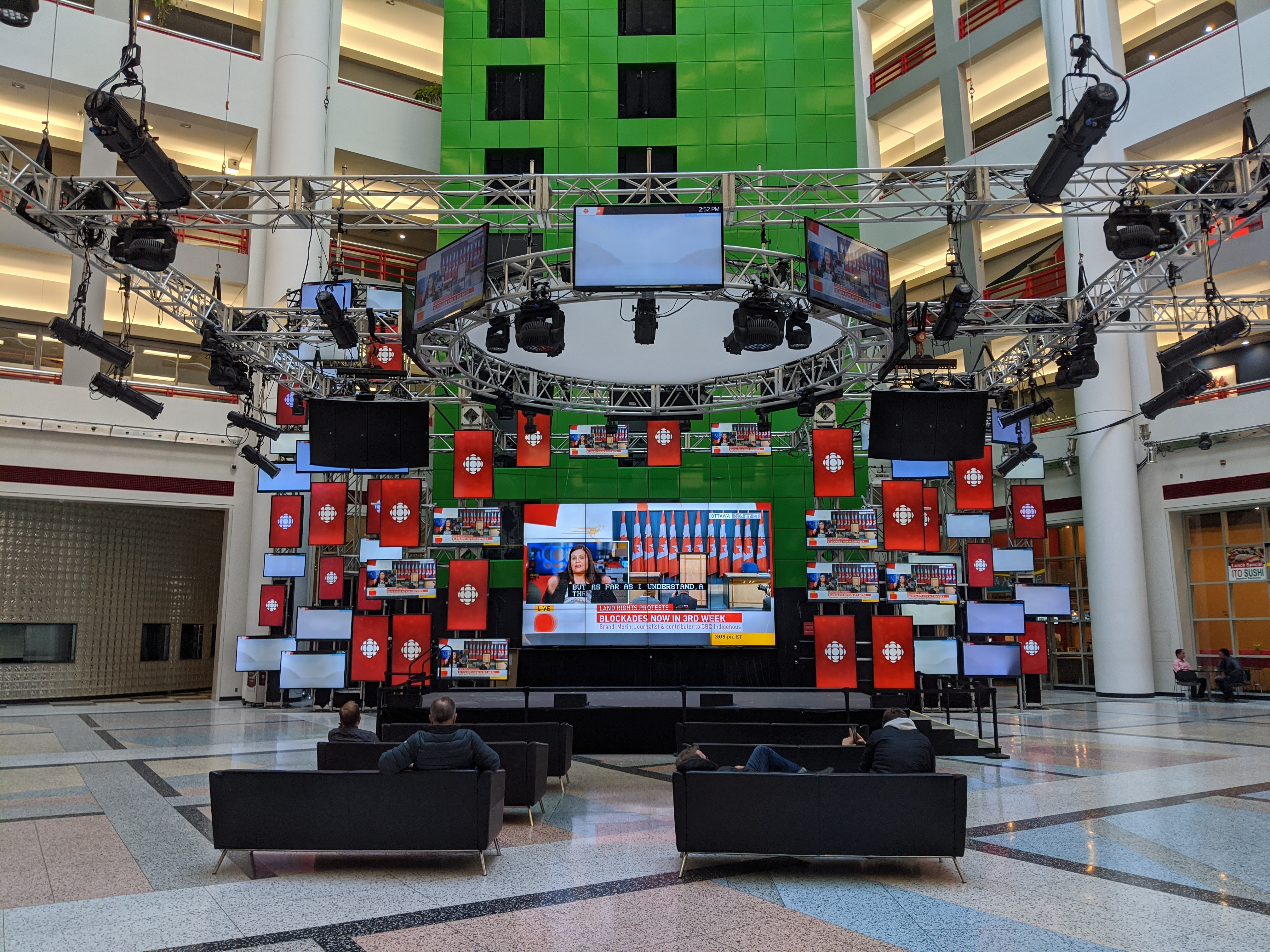 CBC Atrium in Toronto